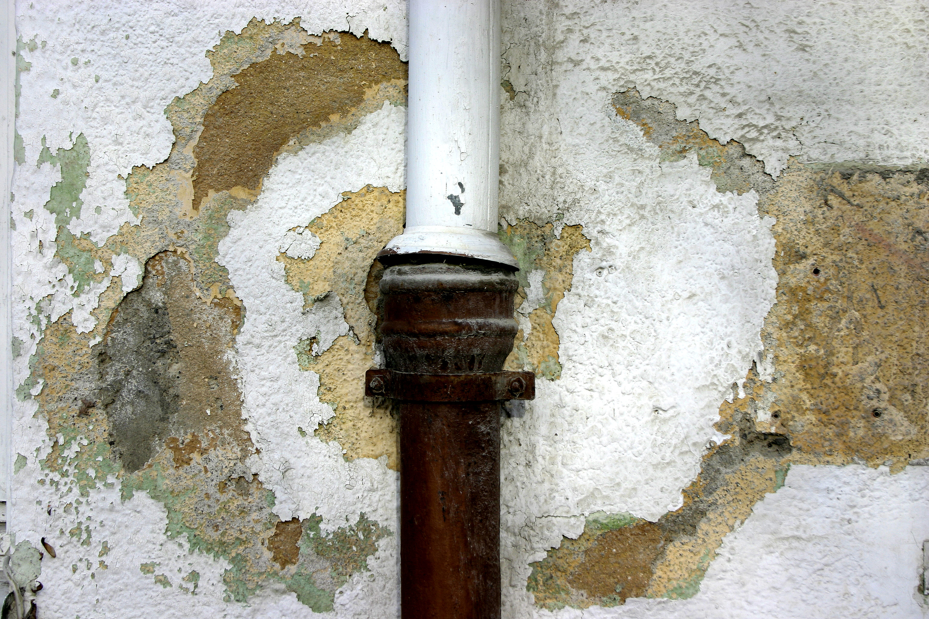 Water damage due to faulty rainwater downpipe